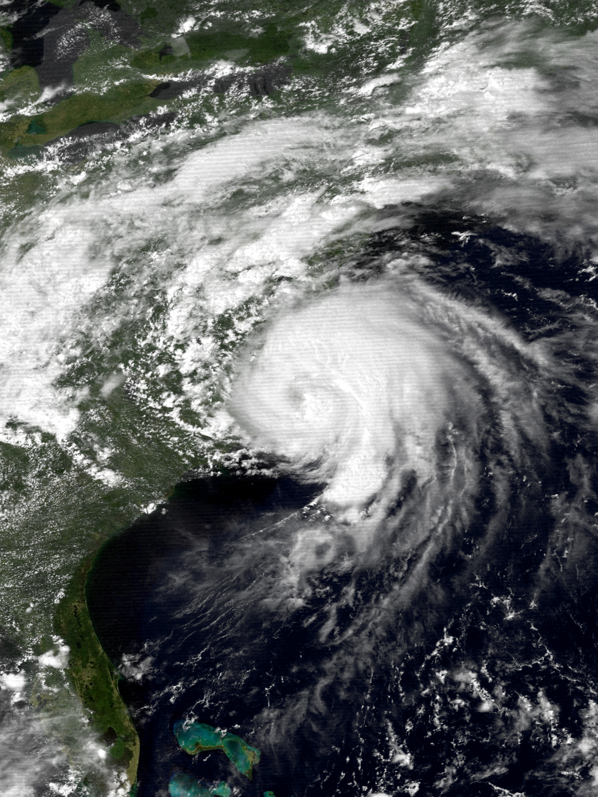 Hurricane Charley on August 17, 1986